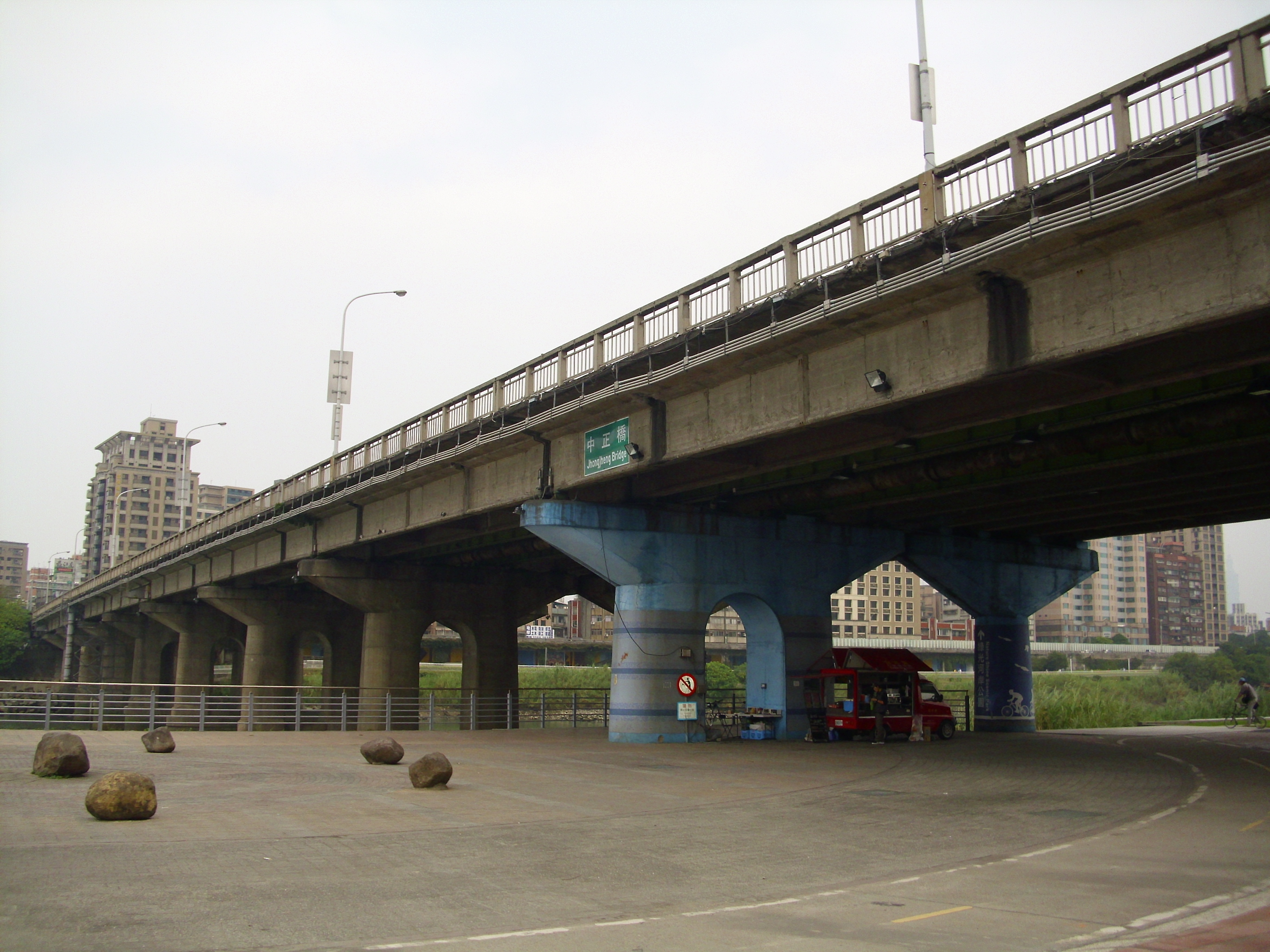 Taipei Zhongzheng Bridge